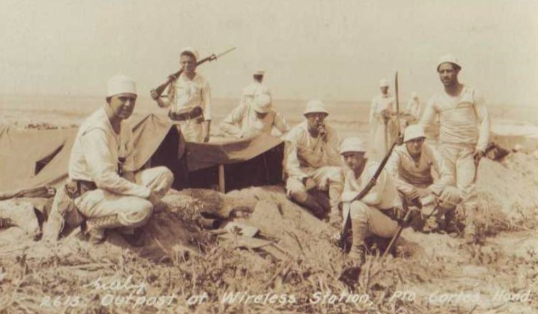 Undated photo showing a party of US sailors with material at the beach neat Puerto Cortes (Honduras). Probably an advance party part of the US intervention from mid-March to late April 1907 during the Honduran-Nicaraguan war when Nicaraguan troops invaded Honduras to overthrow President Bonilla. The Navy detachments were landed to protect American civilians and property.